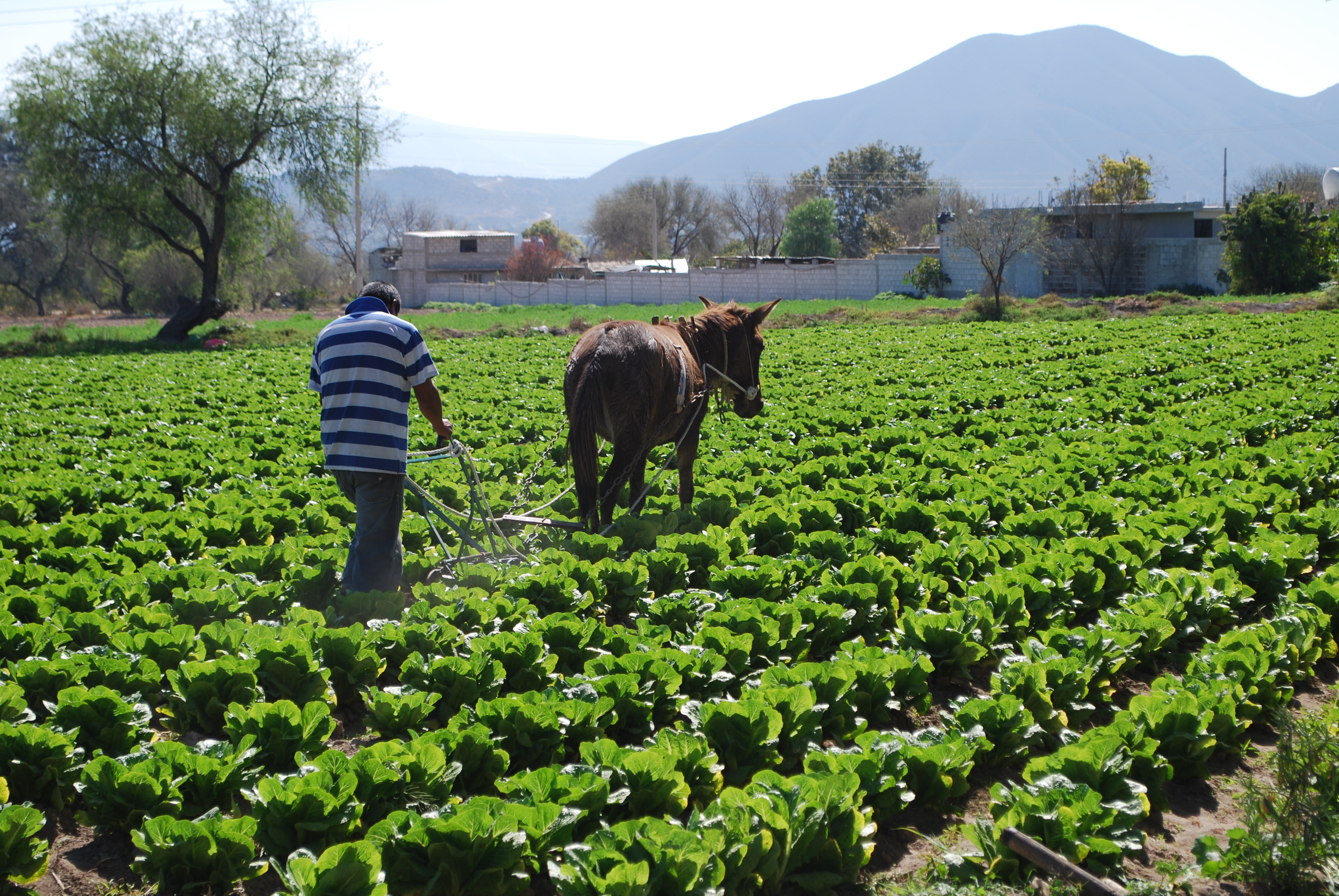 Working a cabbage field in El Nith, Ixmiquilpan, Hidalgo, Mexico